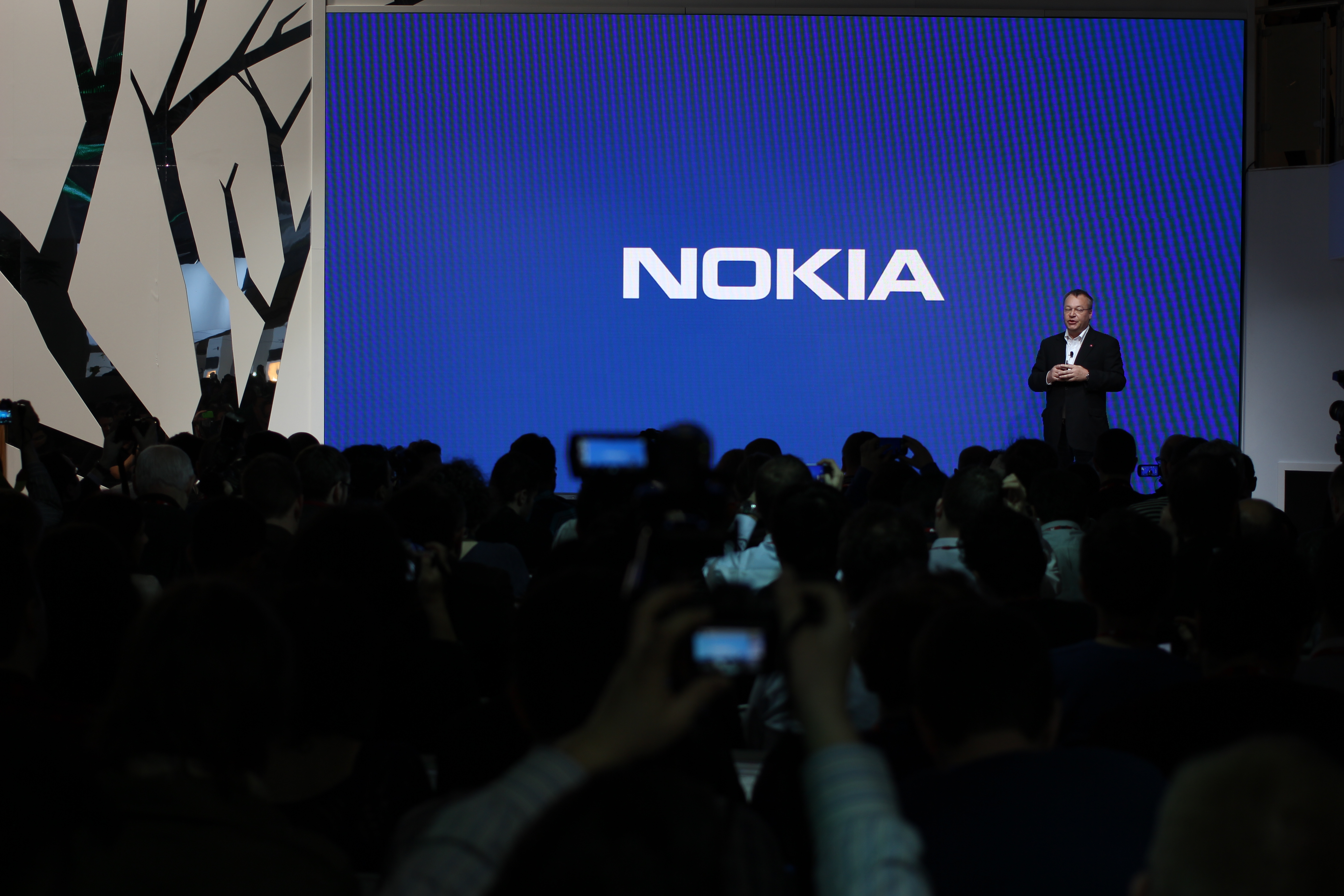 Stephen Elop, CEO of Nokia